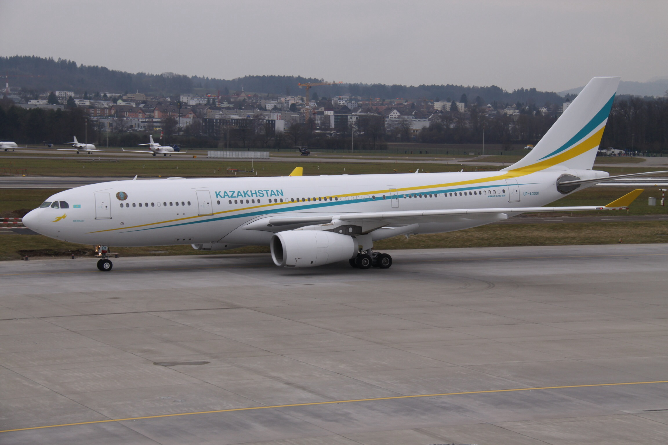 At Zurich Kloten International Airport